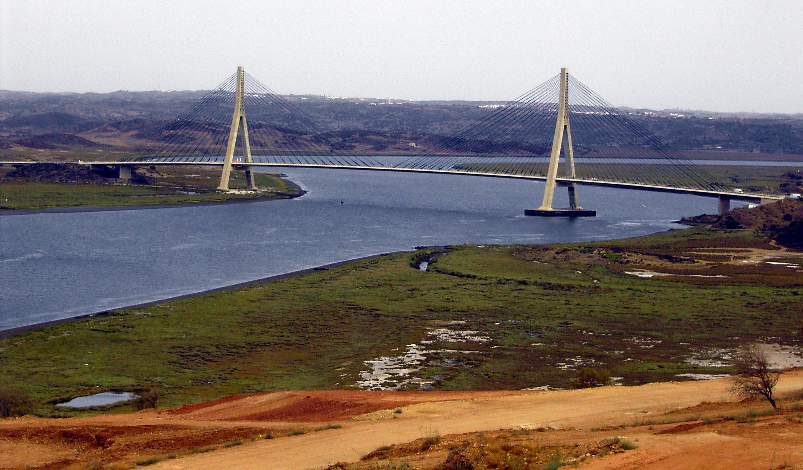 The Puente Internacional del Guadiana (Español), Ponte Internacional do Guadiana (Português), Puente Internacional (English) between Castro Marim, Algarve (on the left of the image) and Ayamonte, Huelva. View looking north west, probably from near the Parador Hotel, Ayamonte.